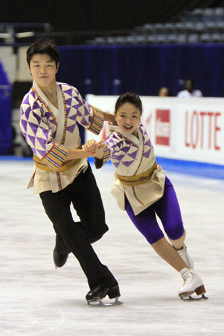 2009 Junior Grand Prix of Figure Skating Final - Maia Shibutani and Alex Shibutani